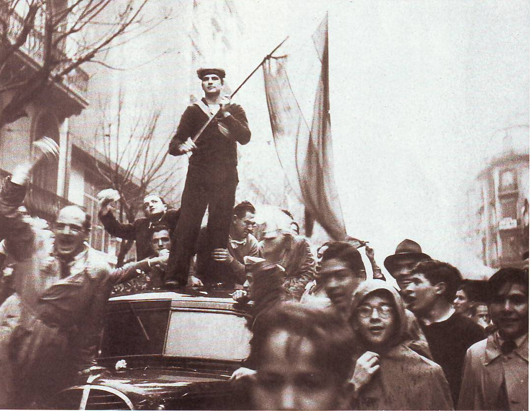 Celebrating the victory of the coup d'état in Argentina self-named "Revolución Libertadora" (Liberator Revolution) that overthrew Juan Domingo Perón